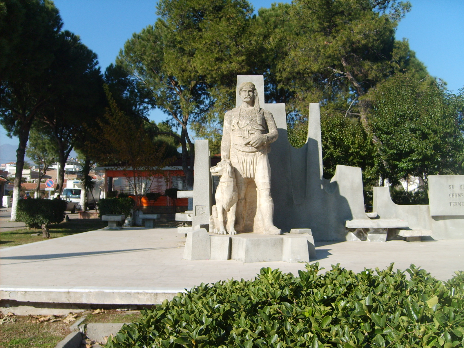 Statue of Atçalı Kel Mehmet Efe, Atça, Sultanhisar, Aydın.